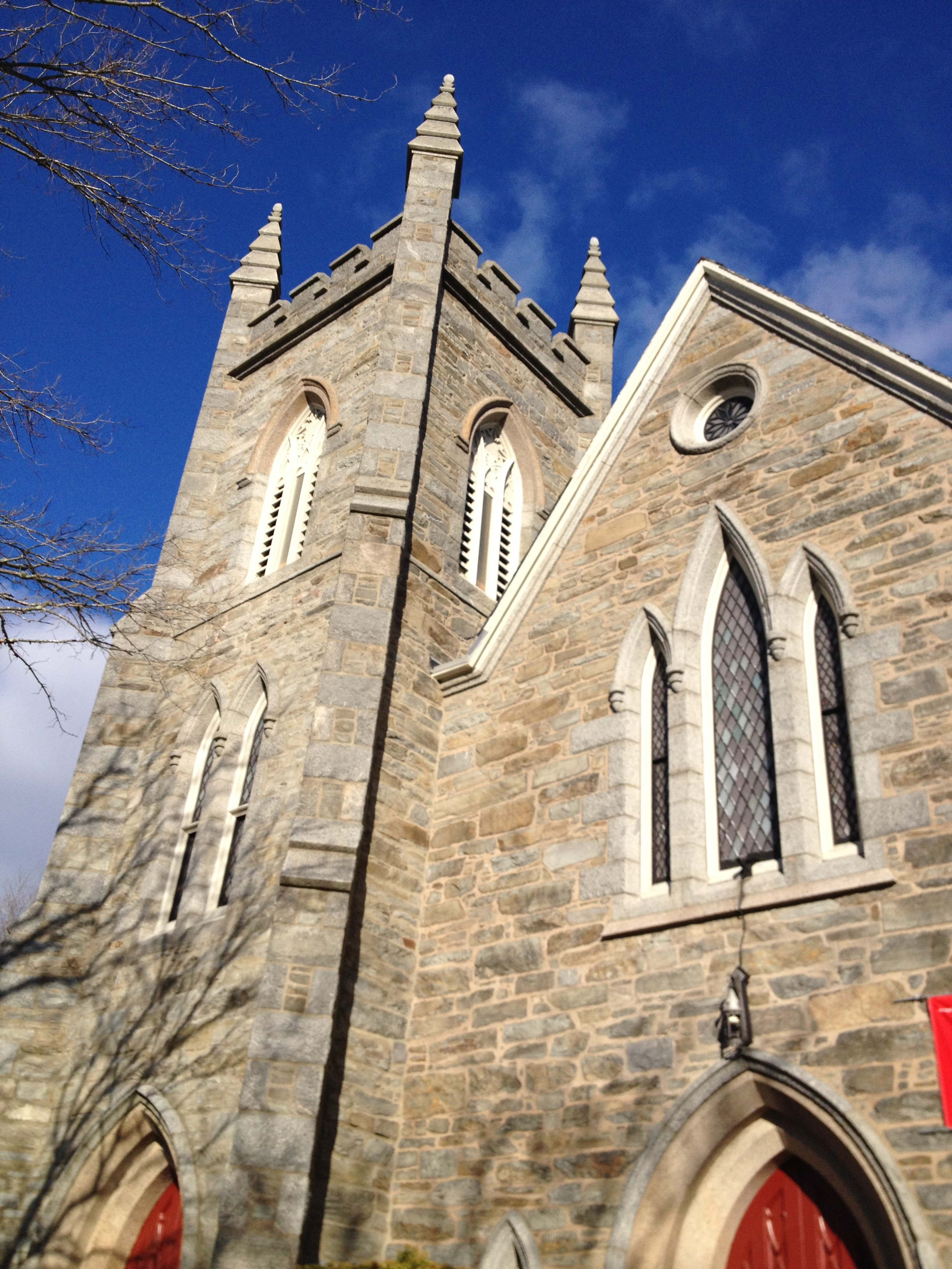 This is the third edifice for the First Congregational Church in Bristol, Rhode Island located at 300 High Street. Construction began in 1855 and was completed in 1856. The congregation was founded in the spring of 1680 by the same people who founded the town a few months later that same year.